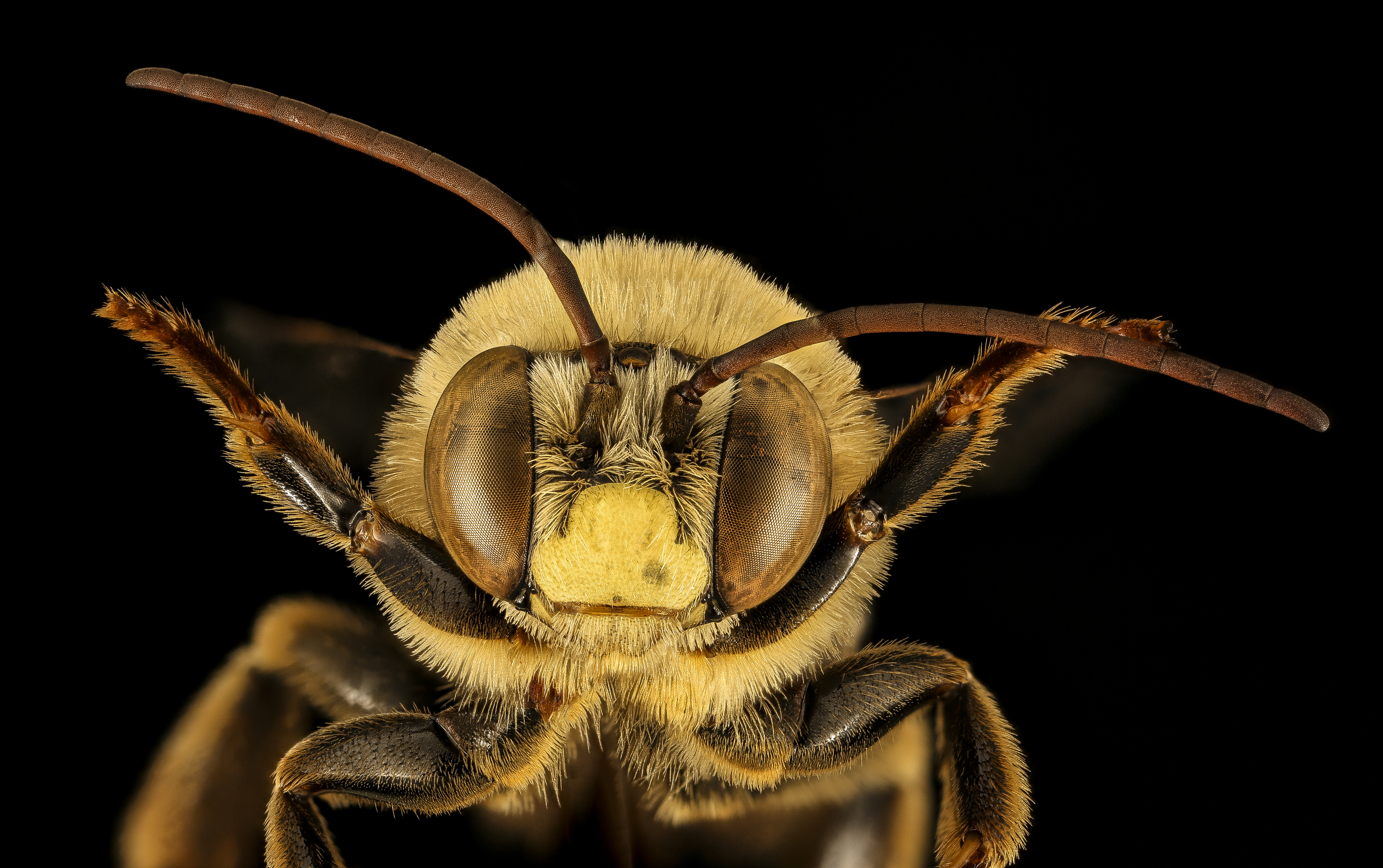 Blackwater National Wildlife Refuge is a good place for Svastra obliqua. This is the male which was quite common around their pollinator garden at their visitor's center. Nice to have mini-wildlife as well as macro-wildlife taken care of at a refuge.Pictures by Hannah Sutton and Ashleigh Jacobs, Photoshopping by Elizabeth Garcia. 02:48, 29 February 2016 (UTC)02:48, 29 February 2016 (UTC) 0 02:48, 29 February 2016 (UTC)02:48, 29 February 2016 (UTC) All photographs are public domain, feel free to download and use as you wish. Photography Information: Canon Mark II 5D, Zerene Stacker, Stackshot Sled, 65mm Canon MP-E 1-5X macro lens, Twin Macro Flash in Styrofoam Cooler, F5.0, ISO 100, Shutter Speed 200 Beauty is truth, truth beauty - that is all Ye know on earth and all ye need to know " Ode on a Grecian Urn" John Keats You can also follow us on Instagram account USGSBIML Want some Useful Links to the Techniques We Use? Well now here you go Citizen: Art Photo Book: Bees: An Up-Close Look at Pollinators Around the World Basic USGSBIML set up: USGSBIML Photoshopping Technique: Note that we now have added using the burn tool at 50% opacity set to shadows to clean up the halos that bleed into the black background from "hot" color sections of the picture. PDF of Basic USGSBIML Photography Set Up: ftp://ftpext.usgs.gov/pub/er/md/laurel/Droege/How%20to%20Take%20MacroPhotographs%20of%20Insects%20BIML%20Lab2.pdf Google Hangout Demonstration of Techniques: or Excellent Technical Form on Stacking: Contact information: Sam Droege 301 497 5840